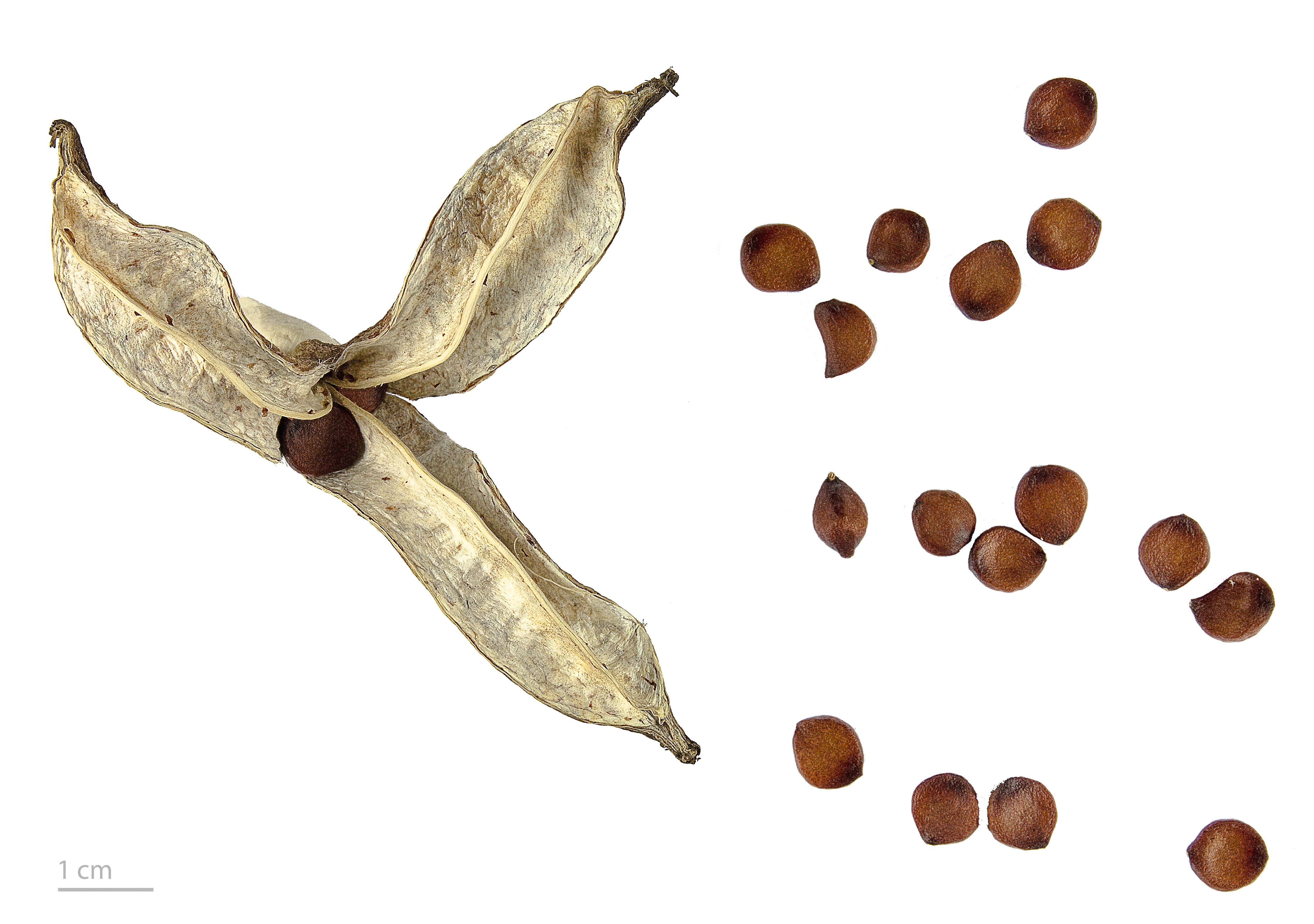 Yellow flag , fruits and seeds